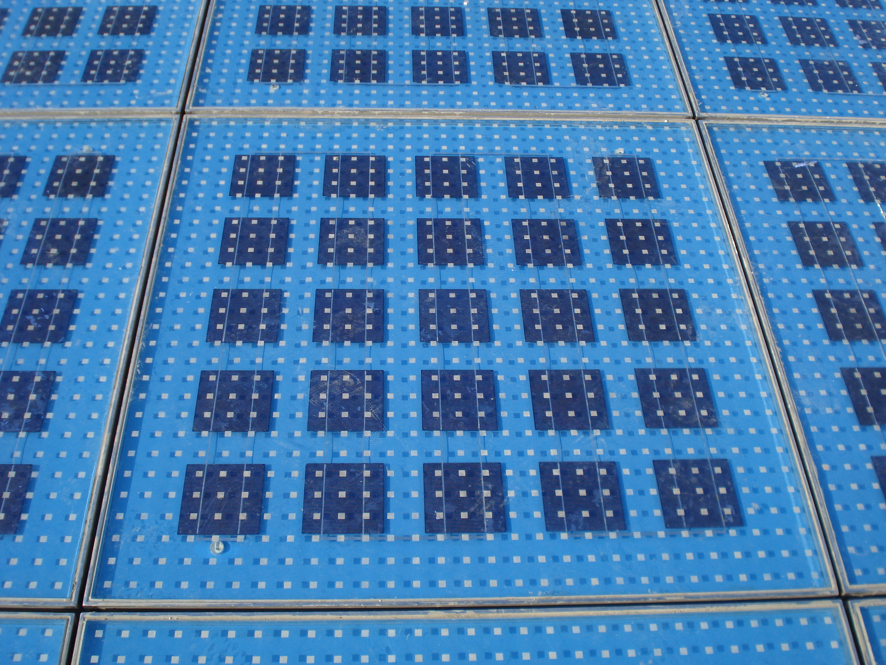 Monument to the Sun in Zadar, Croatia